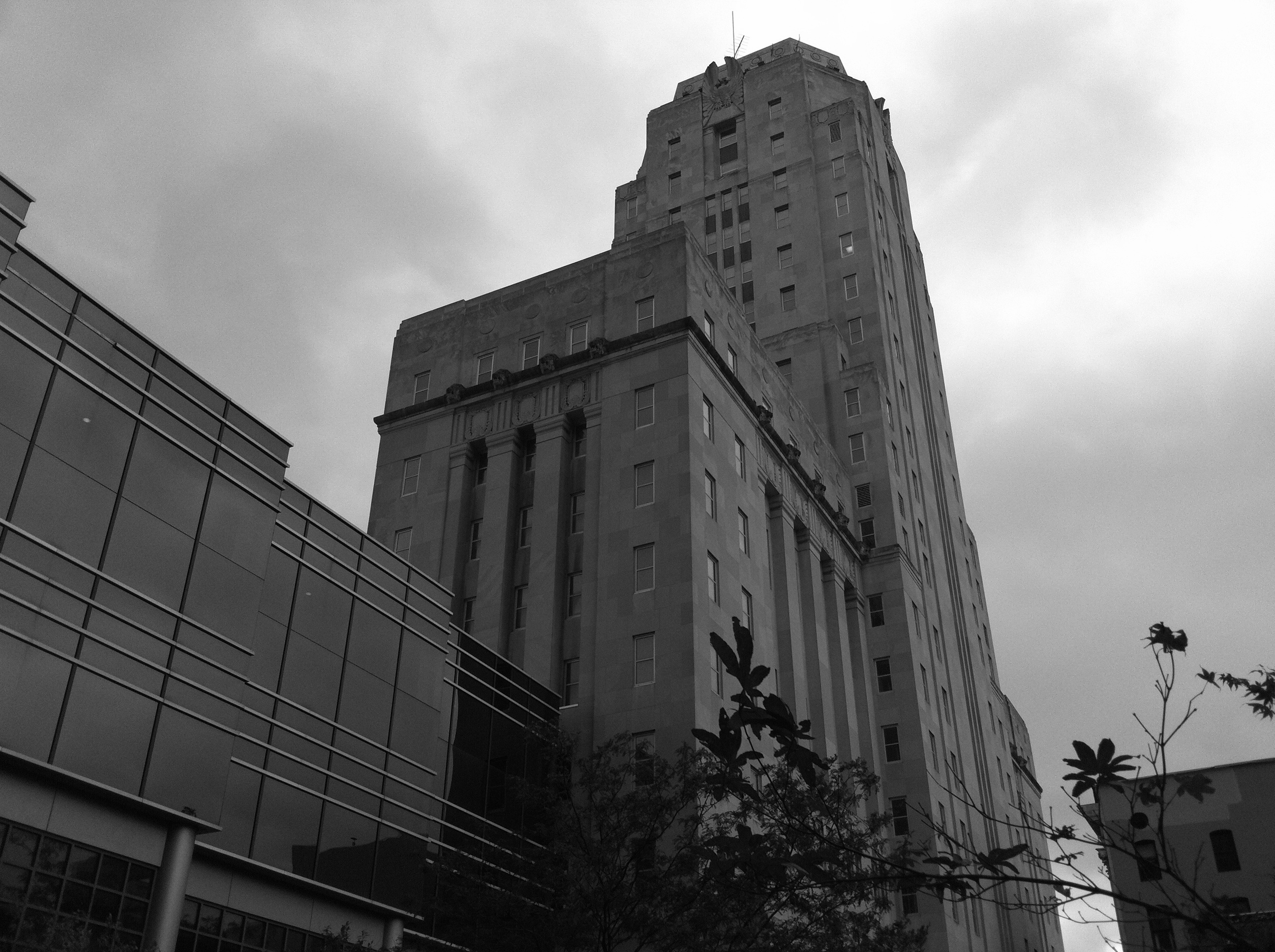 A photo of the Berks County Courthouse taken in September 2010.